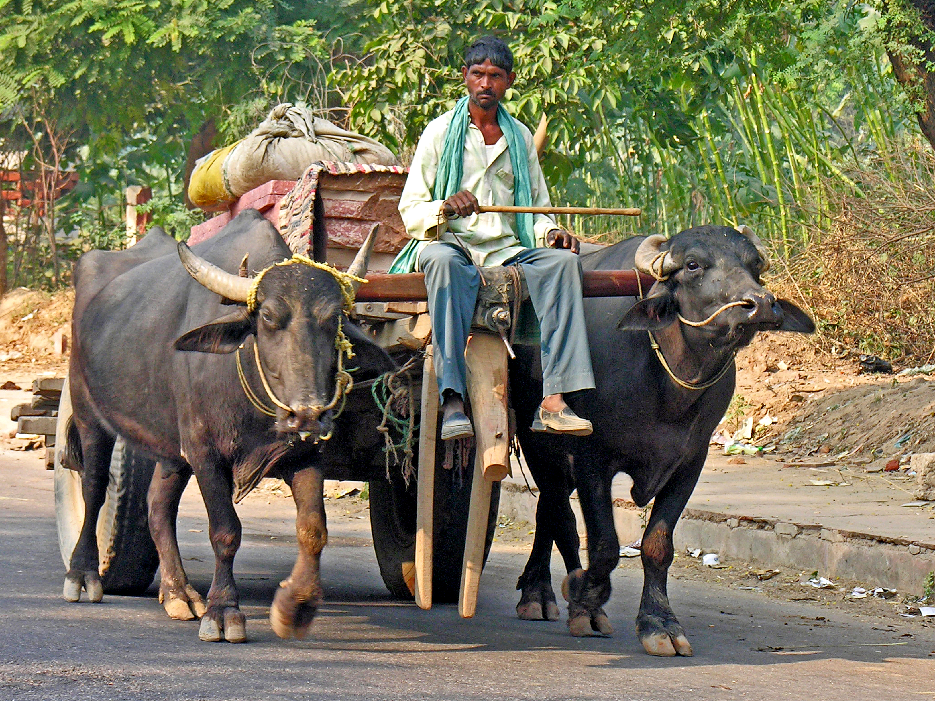 PLEASE, NO invitations or self promotions, THEY WILL BE DELETED. My photos are FREE to use, just give me credit and it would be nice if you let me know, thanks. On the way to Fatehpur Sikri this team of water buffalo was pulling a load of red sandstone. Fatehpur Sikri, India